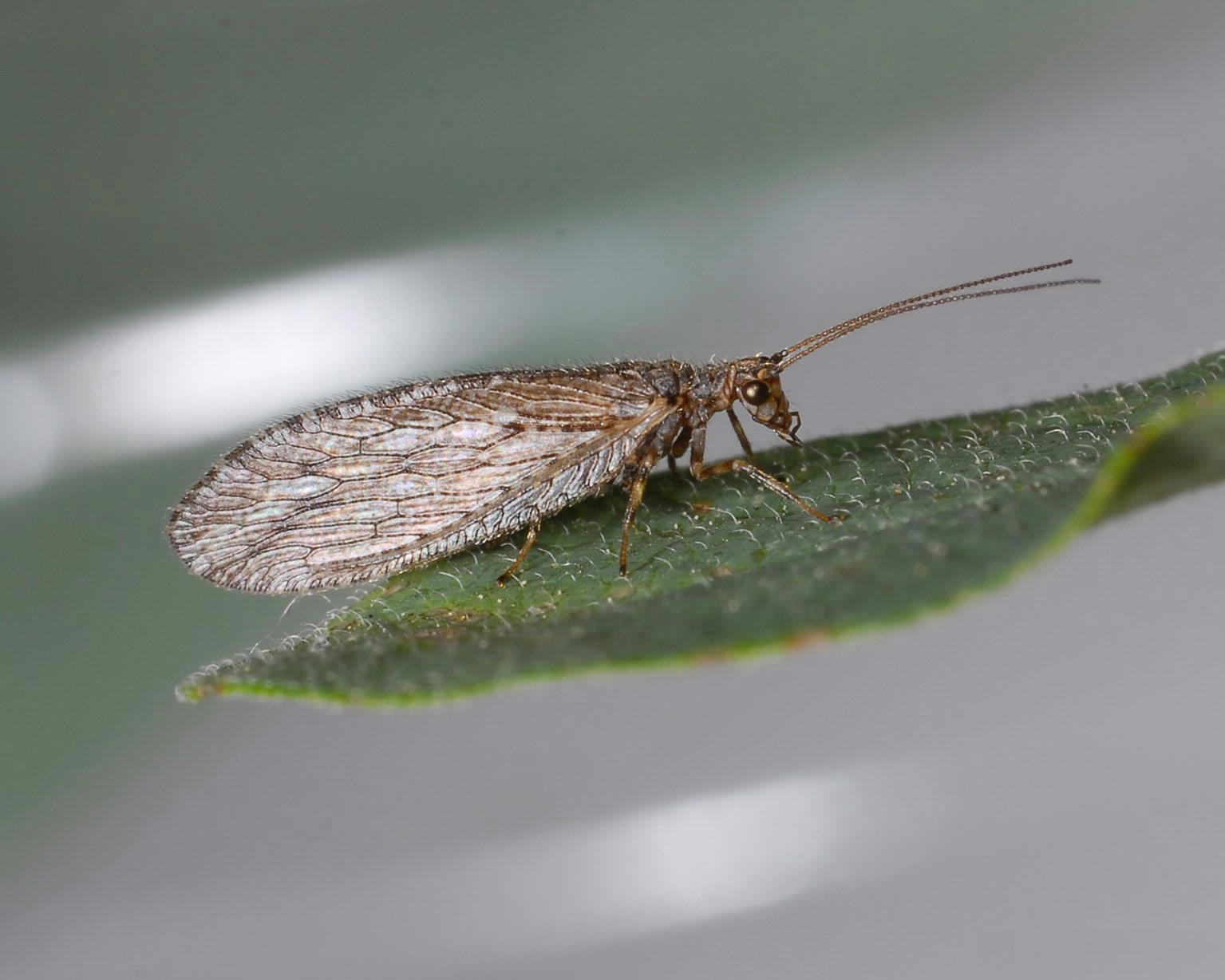 Certainly not Hemerobius stigma Stephens, 1836 (this is(/was?) the ID on the original image on bugwood) but rather some species of Micromus, imho probably M. variolosus but I'm no good with the Nearctic fauna. Confirmation required. Bugwood contacted to correct there aswell. Photographer: Joseph Berger, , United States Descriptor: Adult(s) Image taken in: Lakewood, Colorado, United States